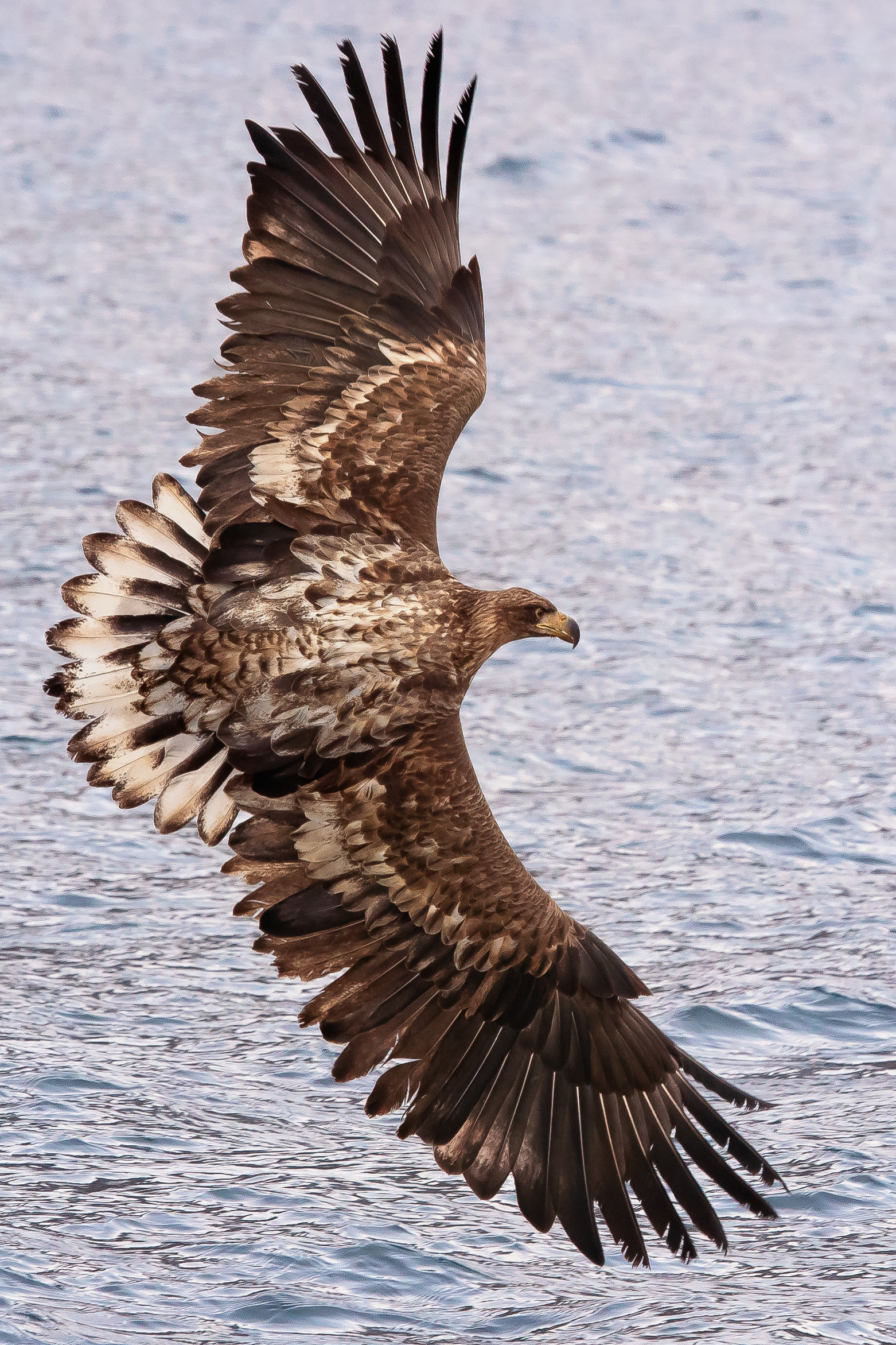 The plumage of an immature white-tailed eagle which is a much darker brown than that of an adult white-tailed eagle